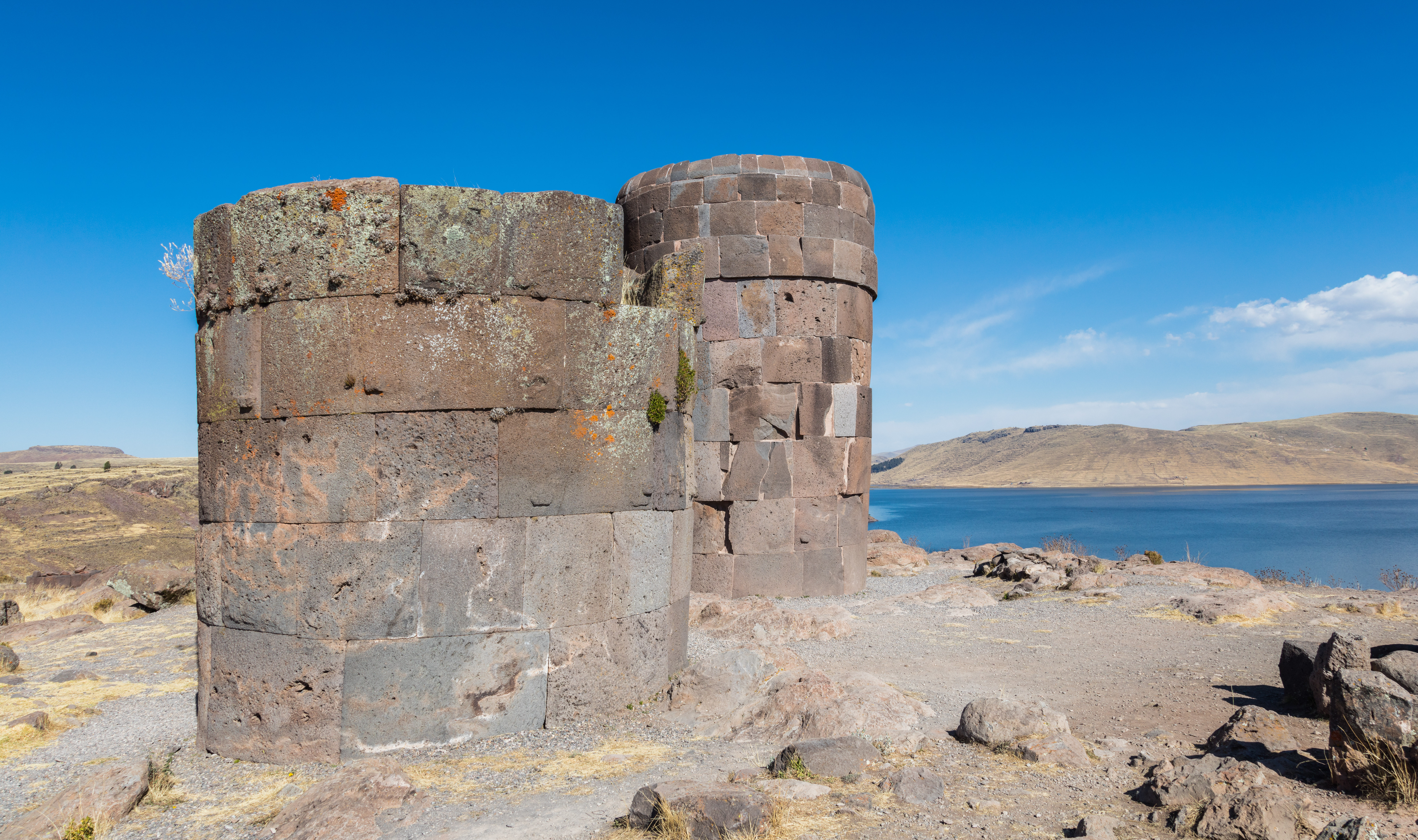 Chullpa funerary tower, Sillustani, Peru